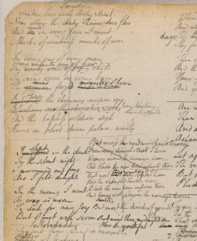 Blake manuscript - Notebook 19 - London